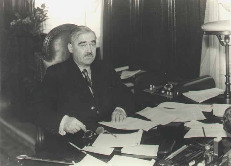 Jan Černý, prime minister of Czechoslovakia (1920–1921, 1926)